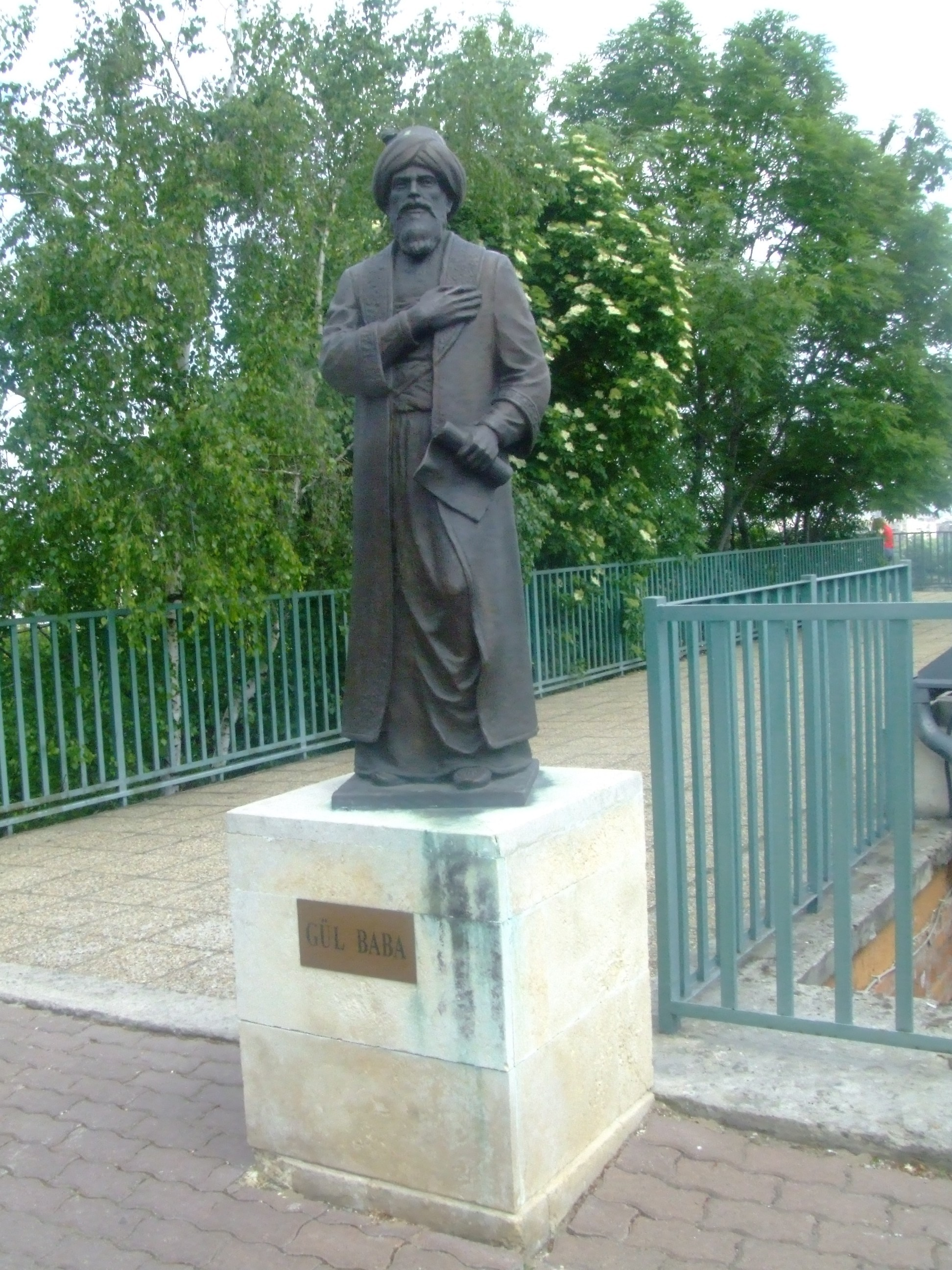 A statue of Gül Baba outside his tomb in Buda